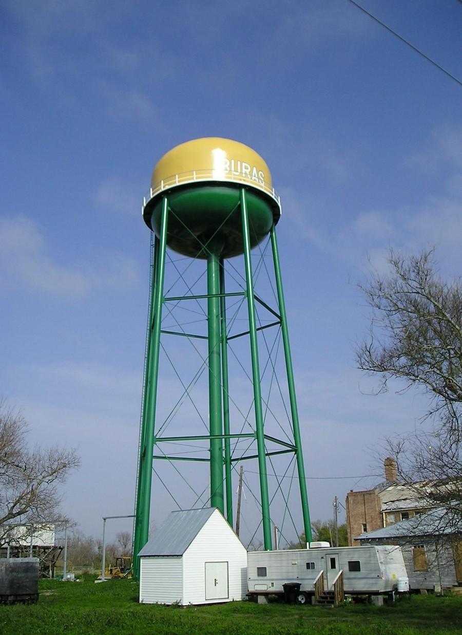 New water tower in Buras, Louisiana, which replaces the tower destroyed during Hurricane Katrina. image of new water tower, taken March, 2008, Buras, Plaquemines Parish, Louisiana